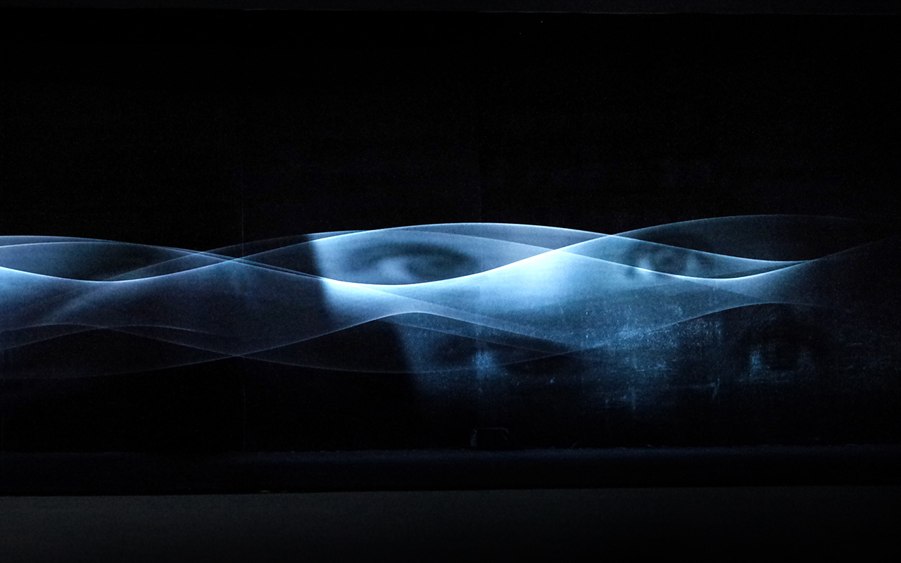 Installation by Kingsley Ng, in collaboration with Robert Cahen and John Conomos